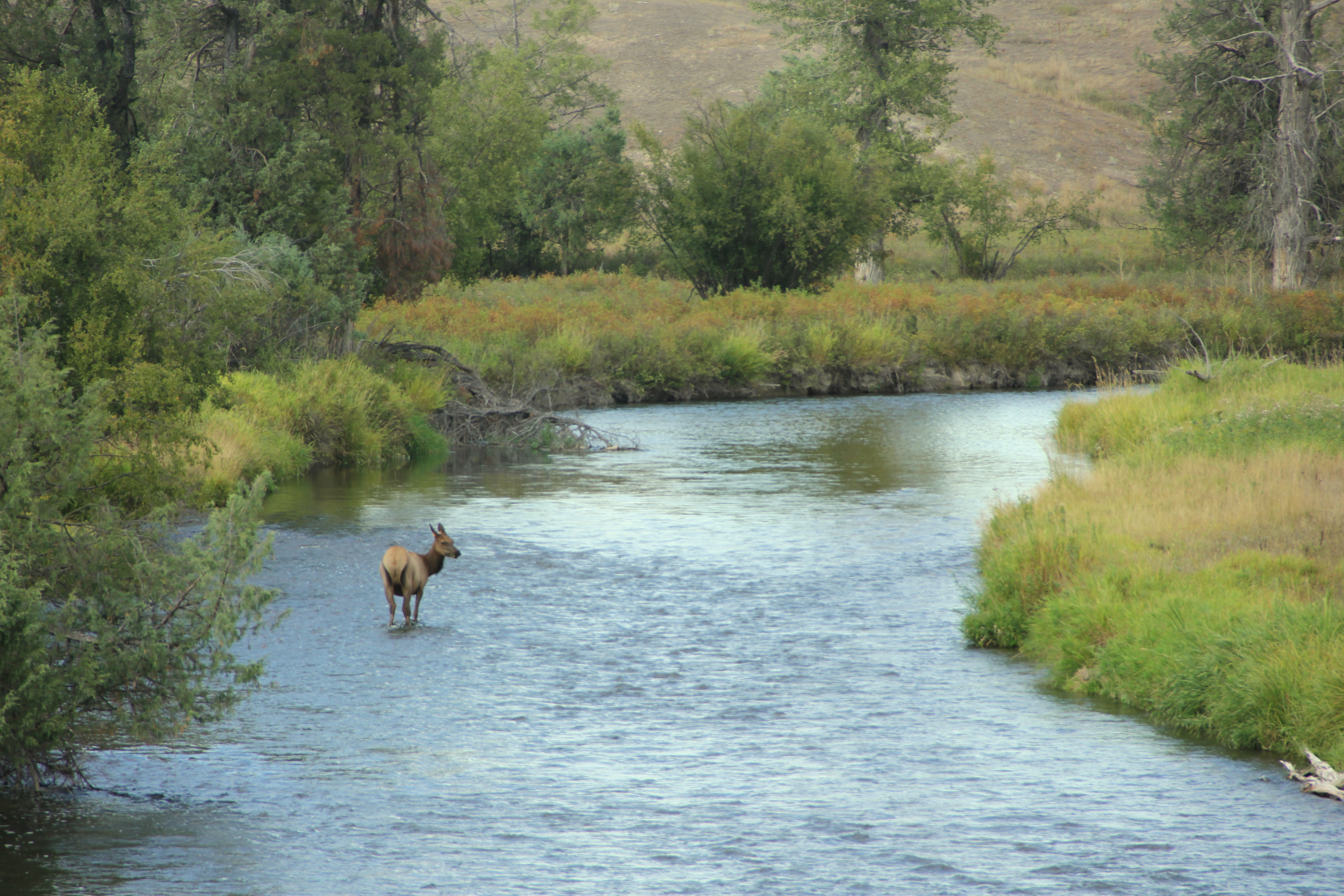 Female elk (Cervus canadensis) in a creek, National Bison Range, Montana